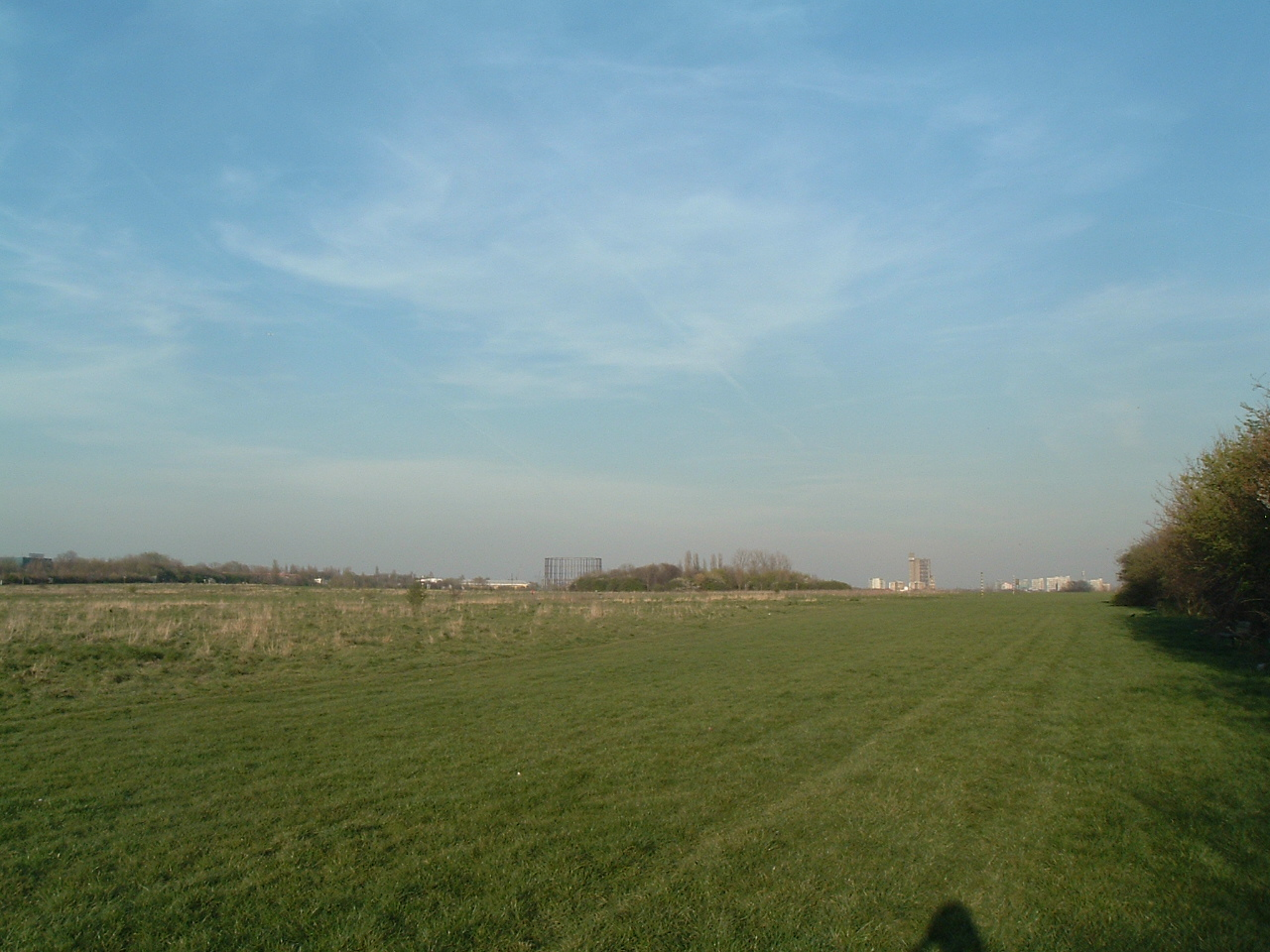 View of Wormwood Scrubs, taken from the south-west edge looking east.